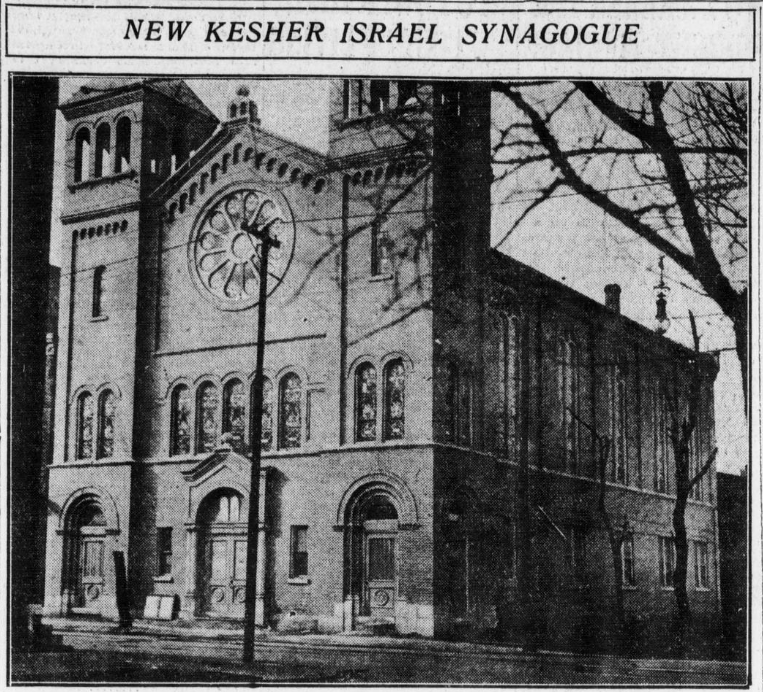 Kesher Israel Synagogue at Briggs and Capitol streets, Harrisburg, Pennsylvania around March 1918. It was dedicated at 1:00 PM on June 23, 1918.